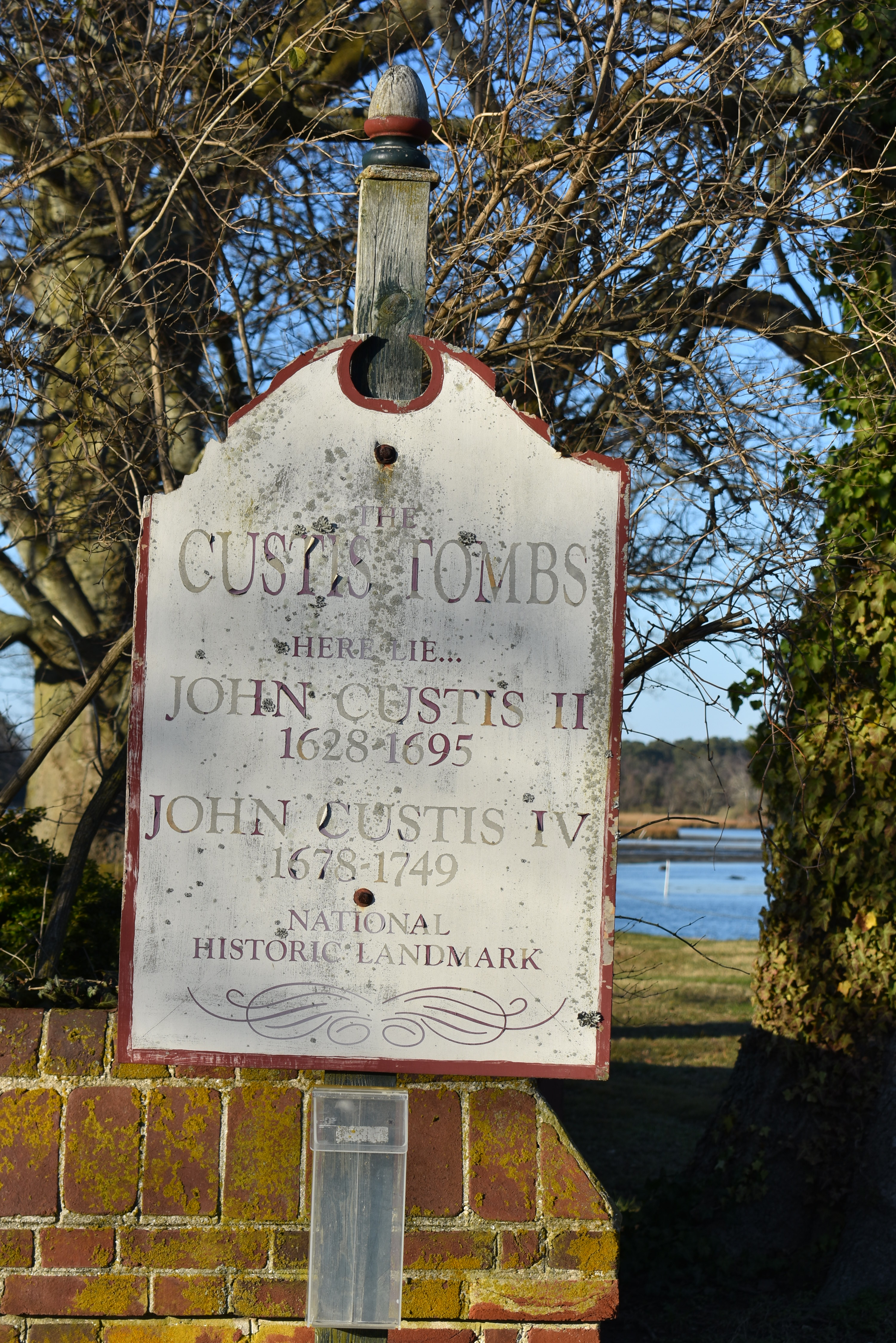 The Custis Tombs, also known as Custis cemetery at Arlington, is a historic family burial ground of the Custis Family and is the final resting place of John Custis who came to Virginia in 1649 and John Custis IV who was the father of Daniel Parke Custis, the first husband of Martha Washington. The Custis Tombs were listed on the National Register of Historic Places in 1970. (70000850)